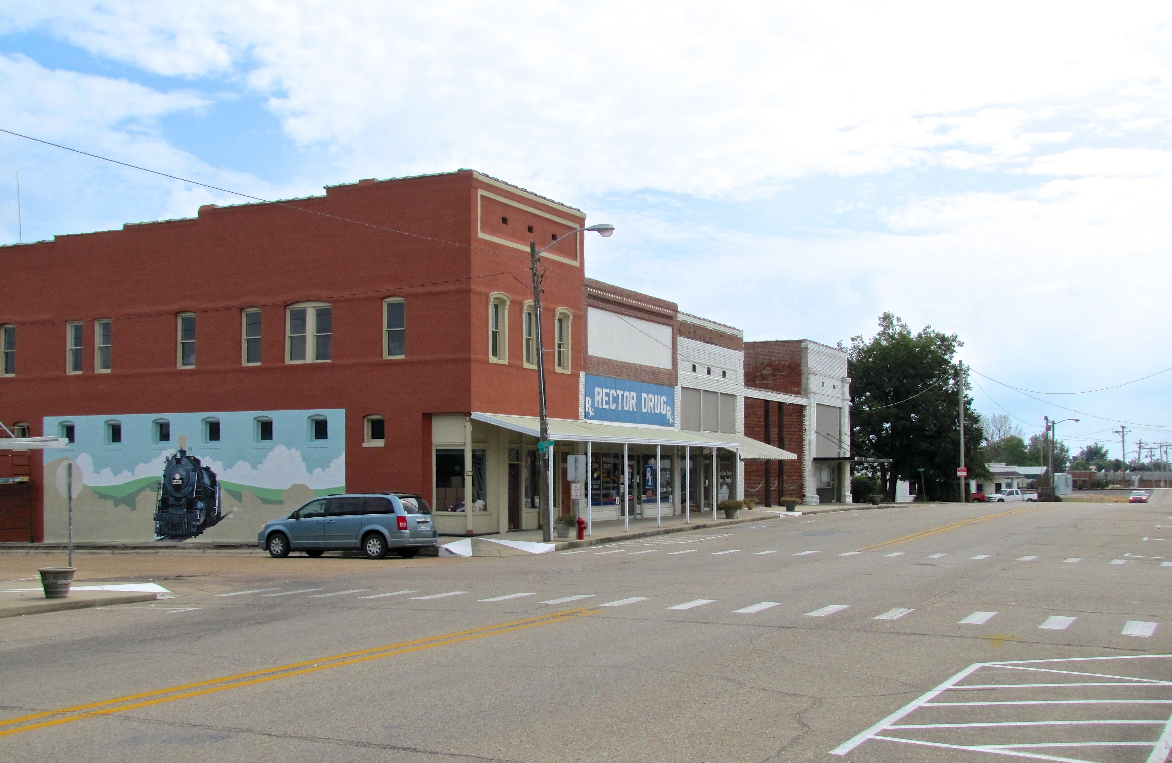 Buildings along Main Street (Arkansas Highway 90) in Rector, Arkansas, United States.